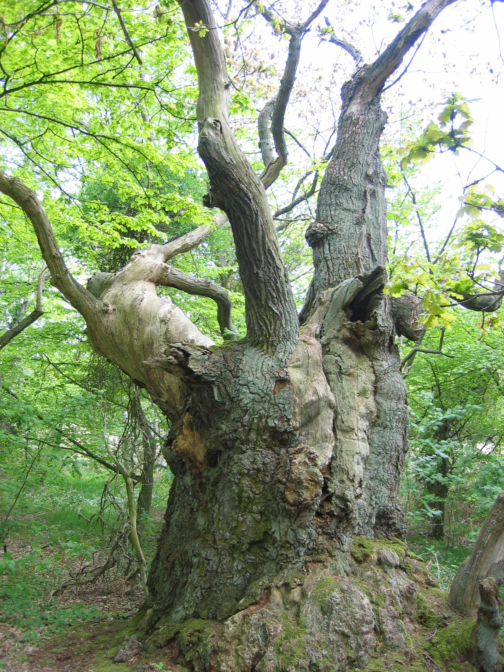 Ancient oak tree quercus in vilm island germany